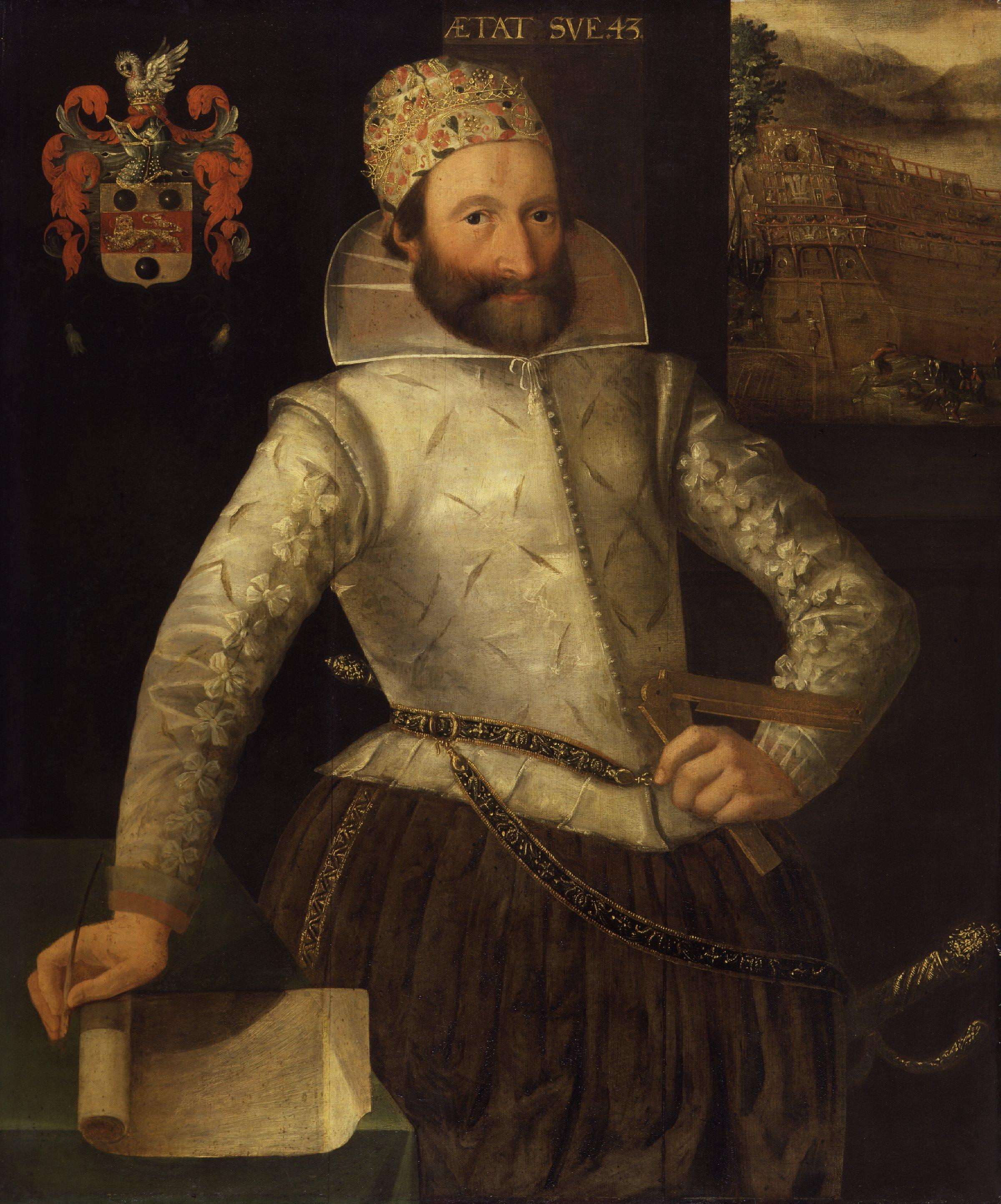 All images in this batch are listed as "unknown author" by the NPG, who is diligent in researching authors, and was donated to the NPG before 1939 according to their website.